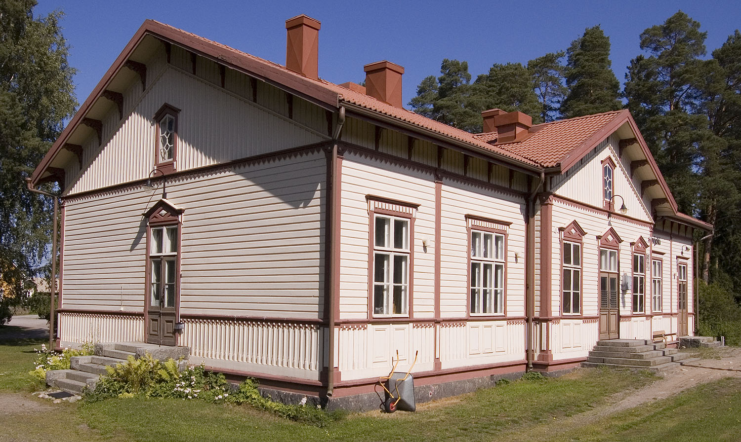 Kovjoki railway station, Finland.